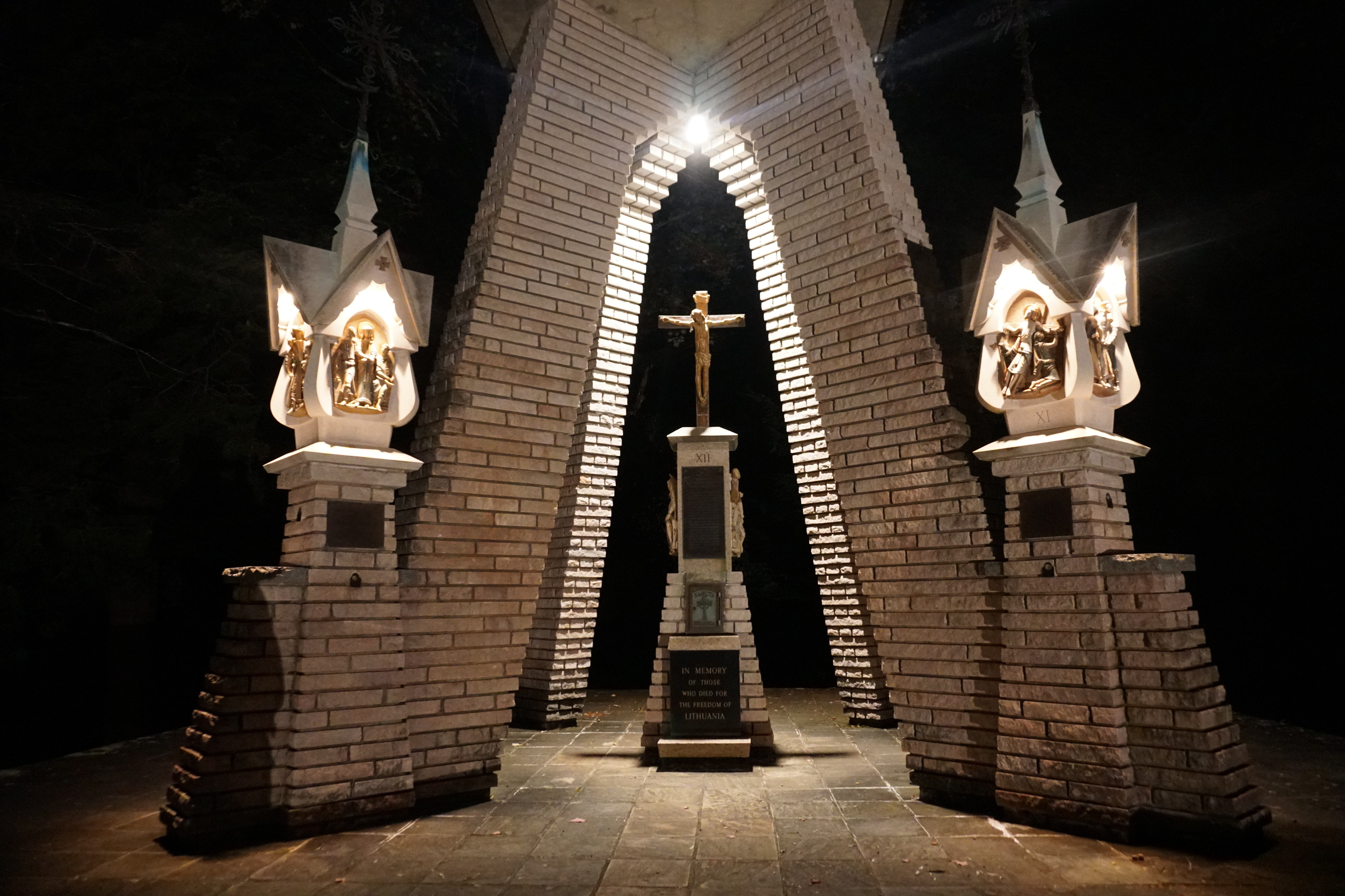 A monument to those who died for Lithuanian freedom in Kennebunkport, Maine (image made during the "Destination - America" mission to be used on the map)